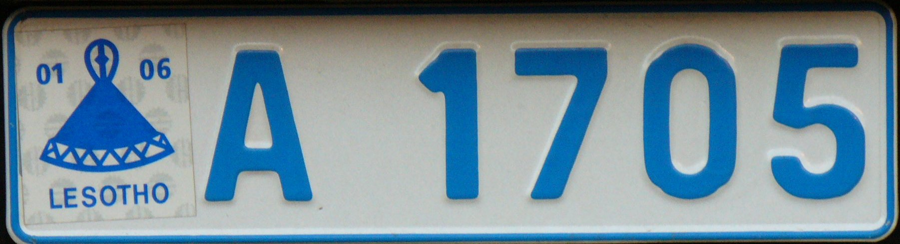 Author: Lars H. Rohwedder (User:RokerHRO) Self-taken photo License: PD